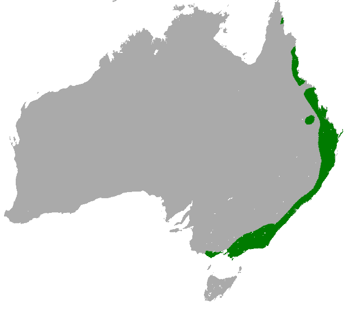 Long-nosed Bandicoot (Perameles nasuta) range